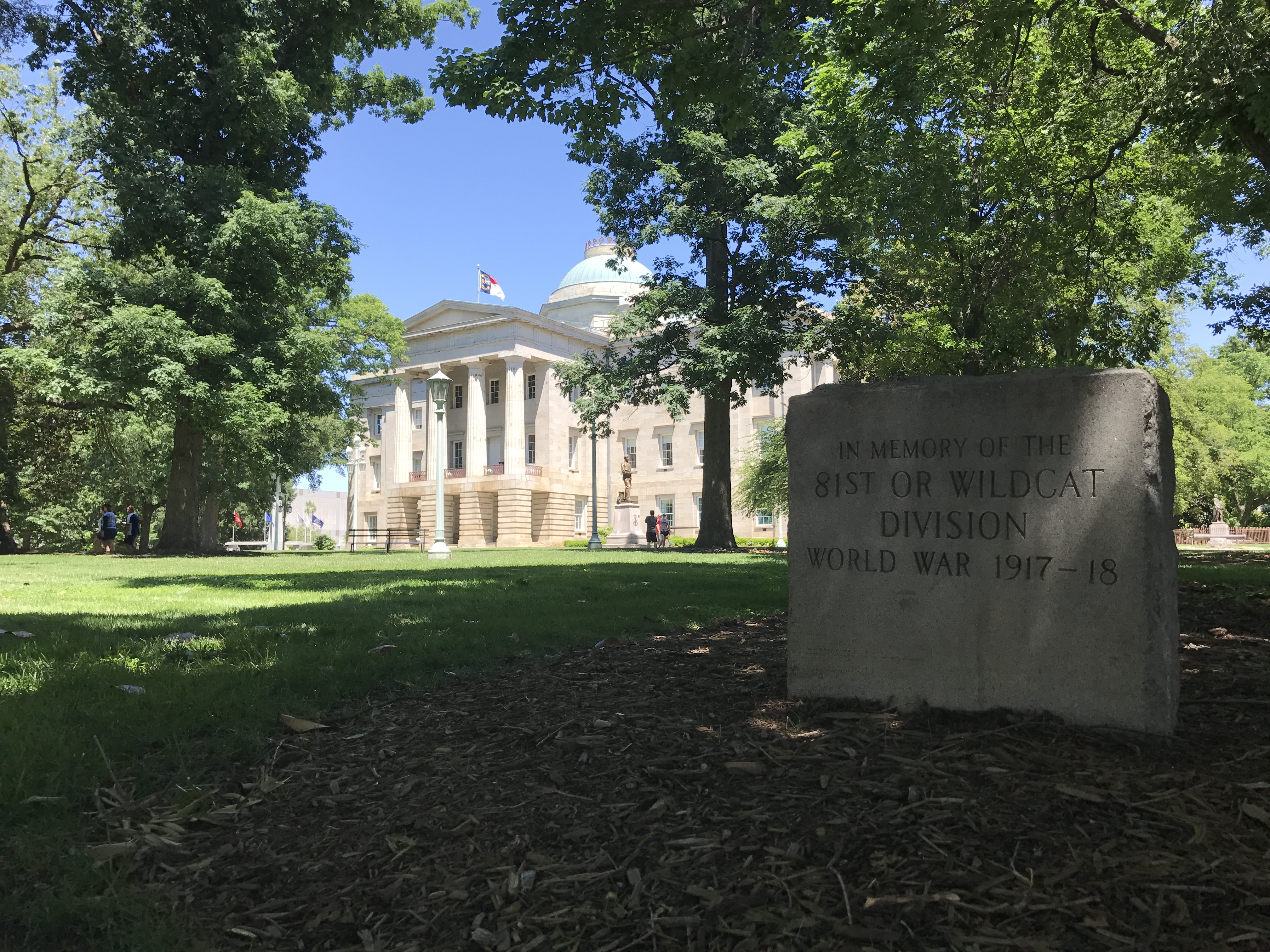 Memorial to the 81st Infantry Division (United States)